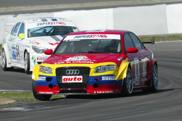 Steven Goldstein - Race Car Pilot - Audi RS4 Sport Car - Colombia